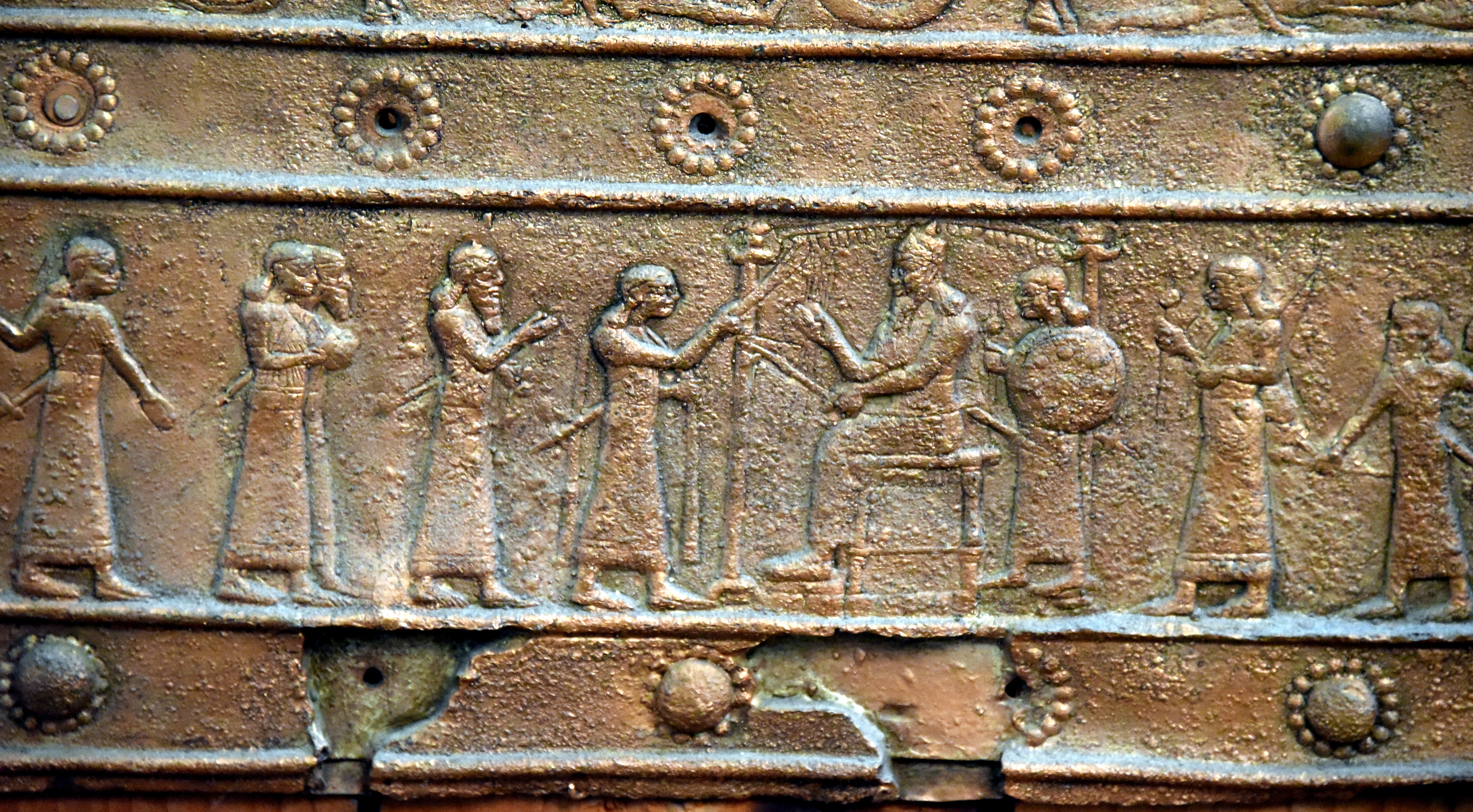 Detail of one of the horizontal bands of a Balawat gate. The wood is a modern one and the bronze strips or bands are electrotype copies. Balawat is the ancient city of Imgur-Enlil, in modern-day Nineveh Governorate, Iraq. It was an Assyrian city where remains of large gates were excavated at the palace of Shalmaneser III (reigned 859-824 BCE). The is replica is in the British Museum, London.